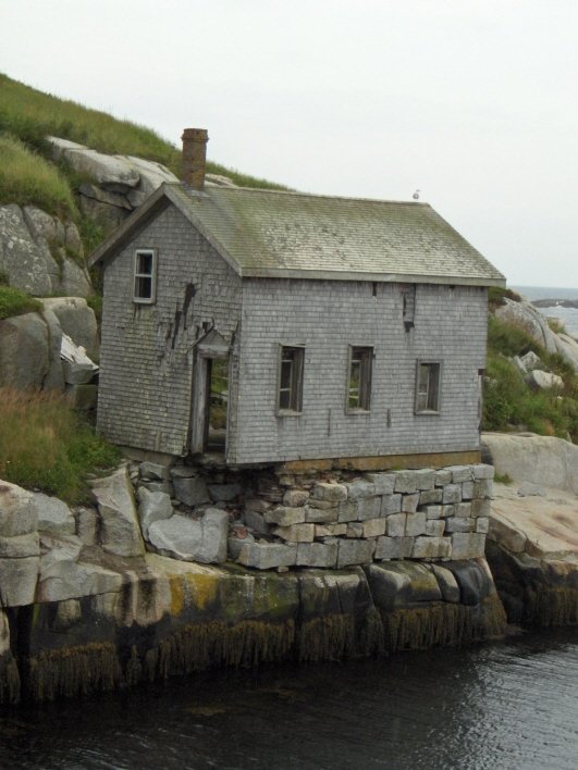 The Gas House, a historic building on Sambro Island, Nova Scotia, suffering from storm damage and neglect by its owners, the Canadian Coast Guard.